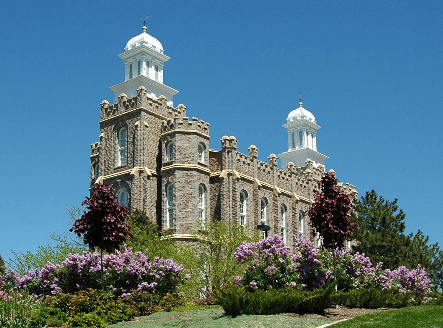 The Logan Utah Temple of the Church of Jesus Christ of Latter-day Saints in Logan, Utah.